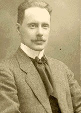 Einar Reuter (7 September 1881 Tornio – 12 October 1968), Finnish writer, painter and critic.